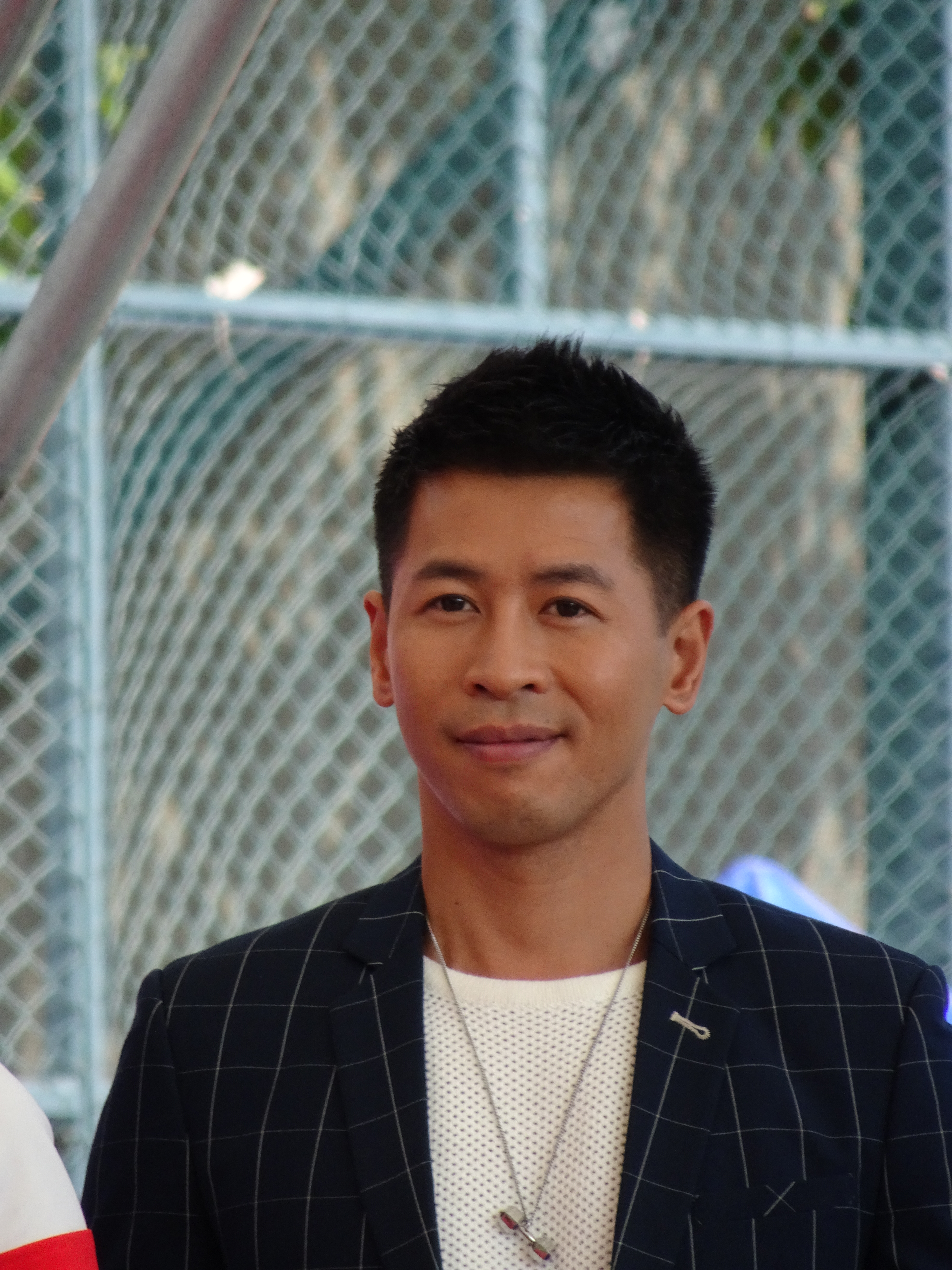 Choi Kwok Wai Frankie (20 Jan 2018, Dog Adoption Carnival, Lai Chi Kok Park Phase I) 中文（香港）: 蔡國威 (20 Jan 2018, 狗狗領養嘉年華, 荔枝角公園一期足球場)